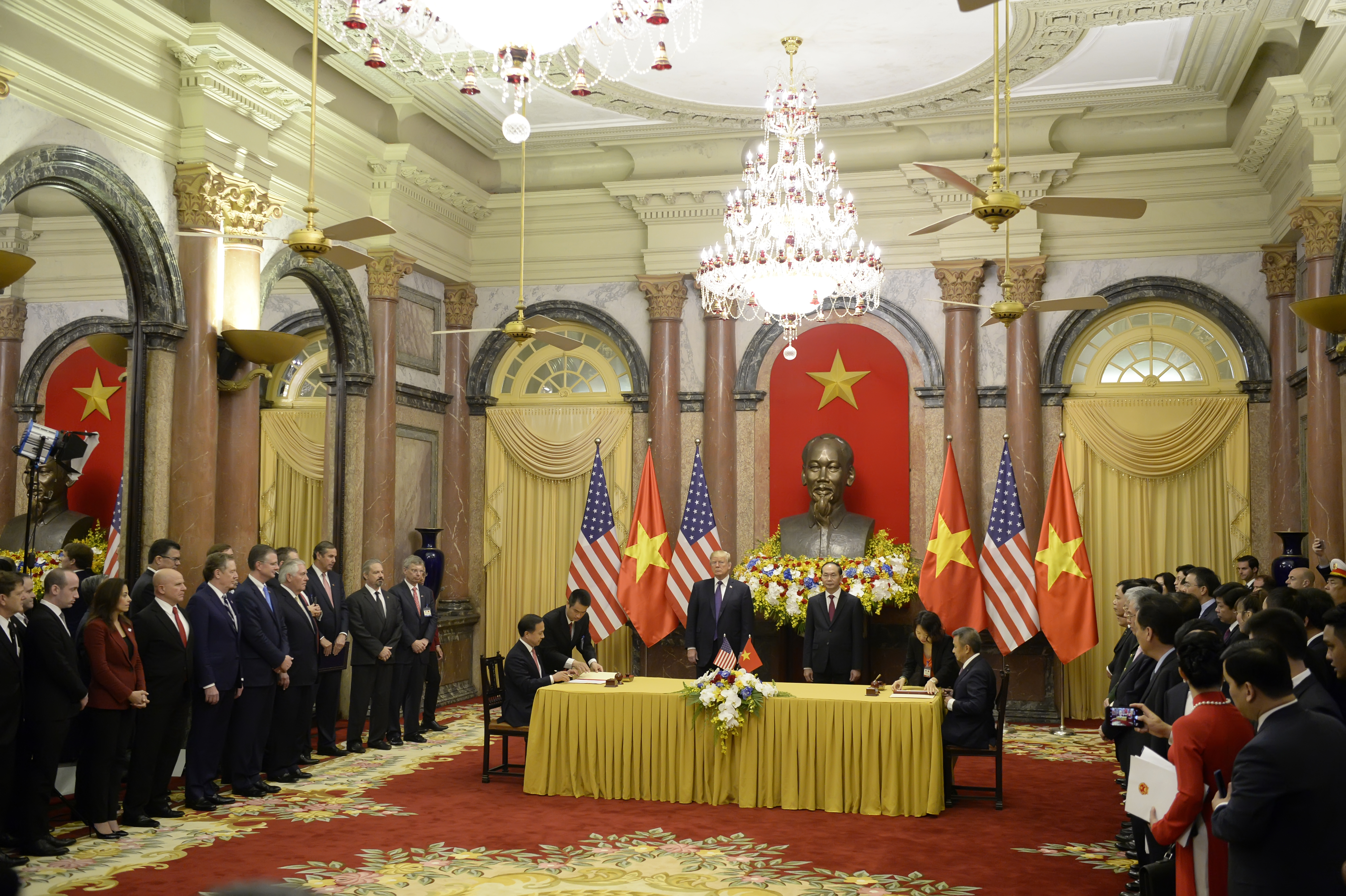 U.S. Secretary of State Rex Tillerson accompanies President Donald Trump to a commercial deals signing ceremony with Vietnamese President Tran Dai Quang at the Presidential Palace in Hanoi, Vietnam, on November 12, 2017. [State Department Photo/ Public Domain]